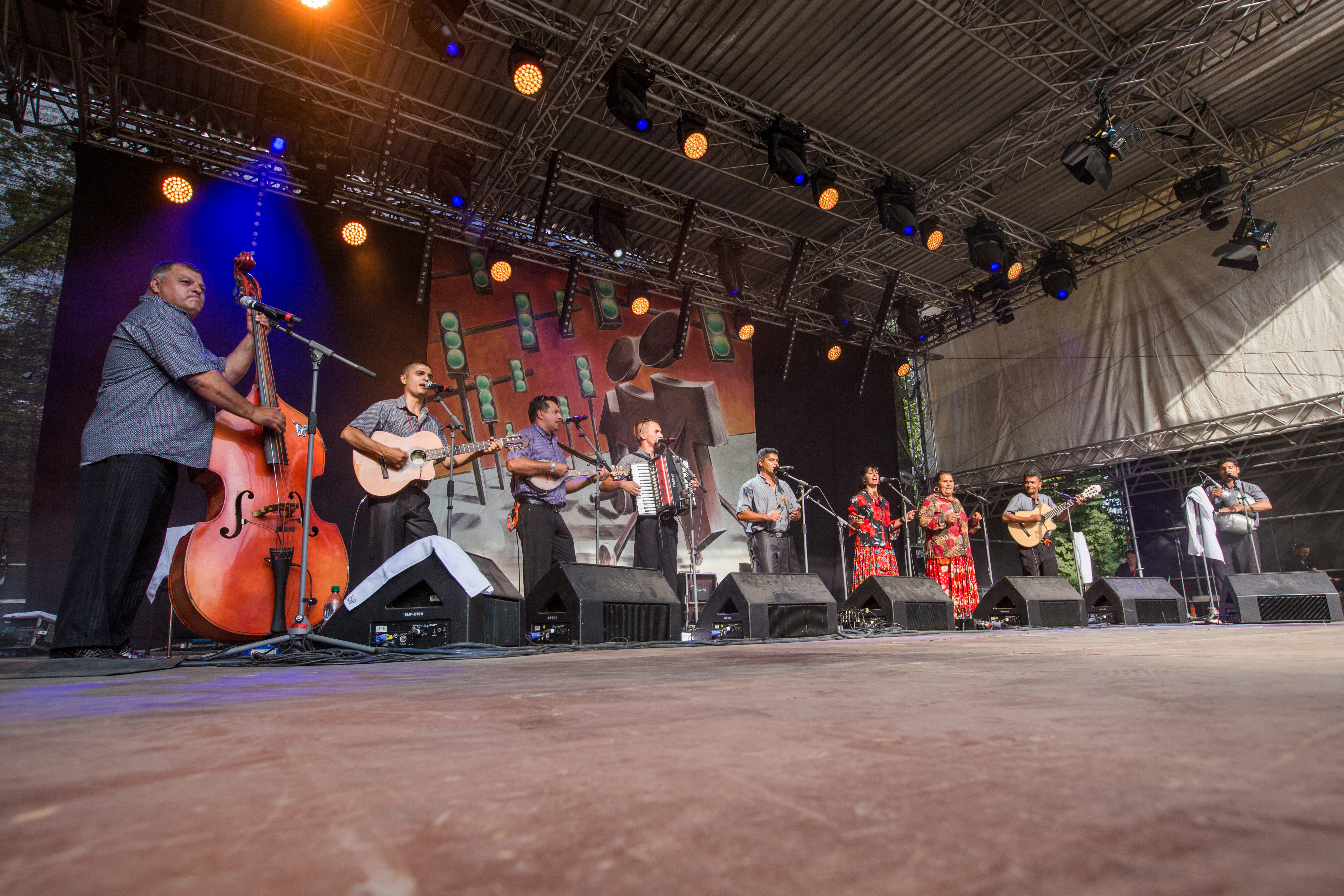 Festivalsommer This photo was created with the support of donations to Wikimedia Deutschland in the context of the CPB project "Festival Summer".